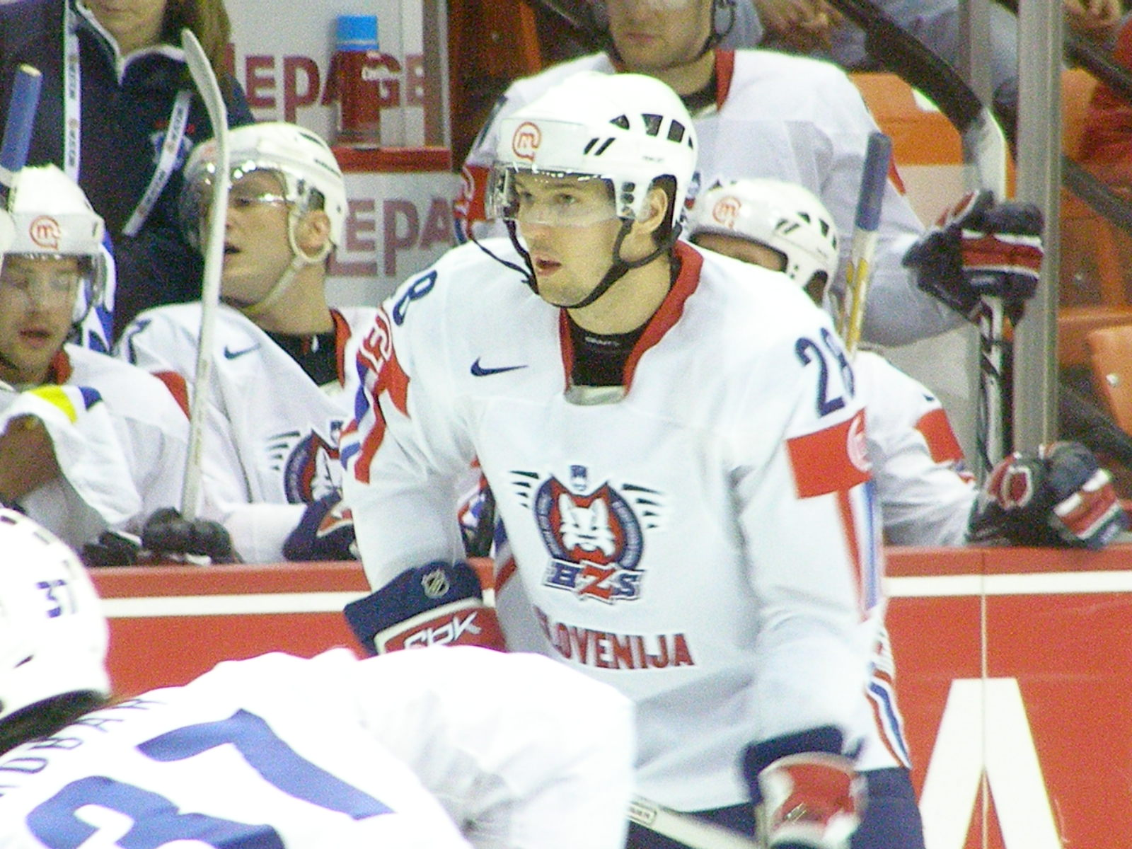 Ales Kranjc, slovenian ice hockey player